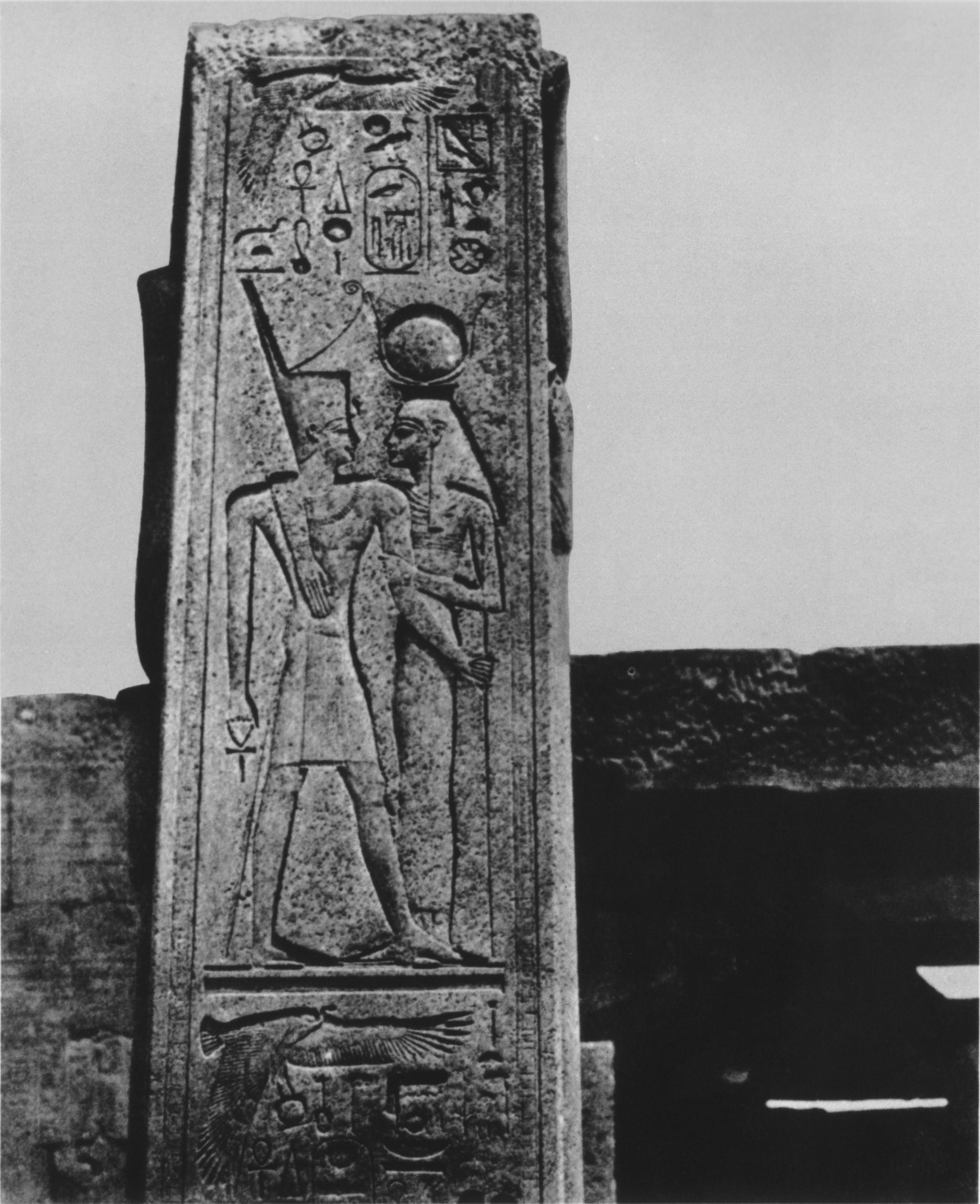 Stele at tempel area close to Karnak, Egypt, Calotype taken by Maxime Du Camp, French writer and photographer (1822-1894)